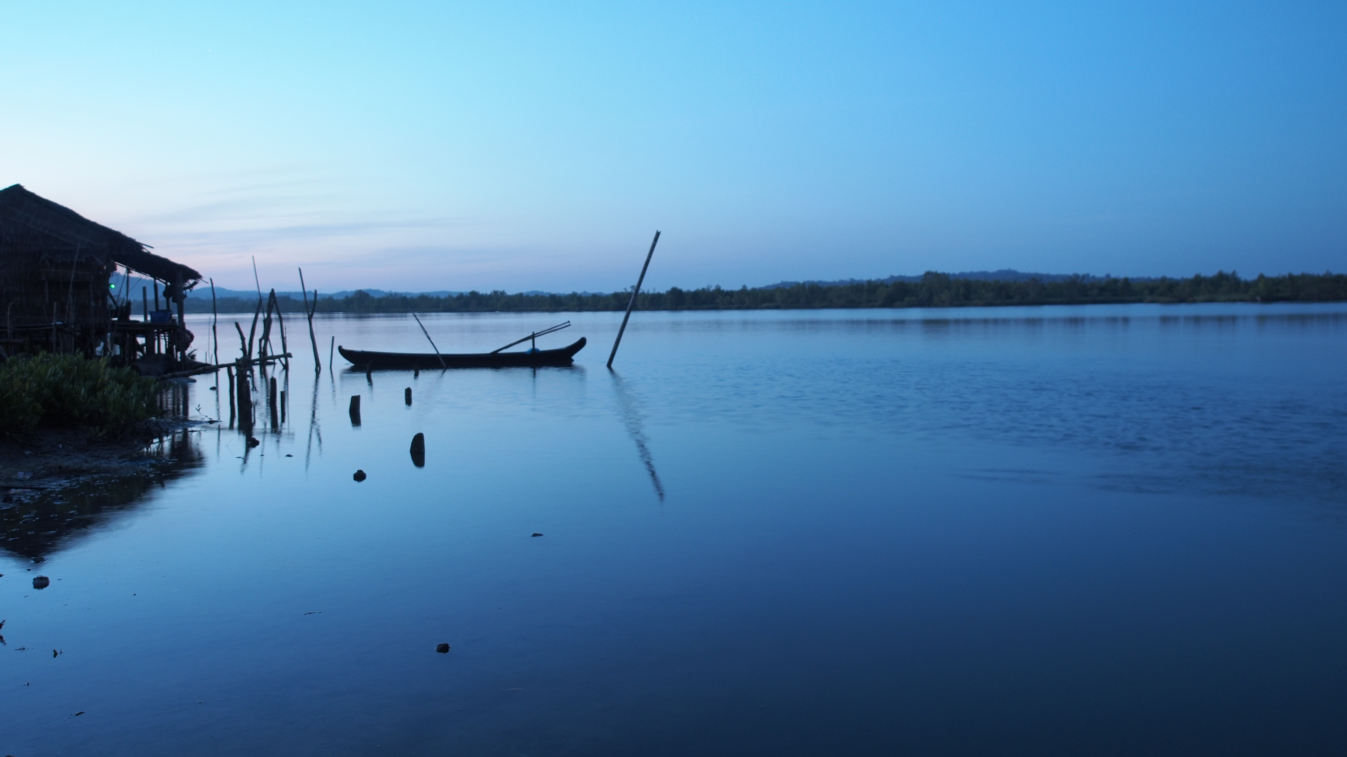 This photo was taken at the local jetty of Nga Youte Kaung Village at the early morning on the way to Gayangyi Island, Ayeyarwady Division, Myanmar. မြန်မာဘာသာ: ဧရာဝတီတိုင်းဒေသကြီးရှိ ဂေါ်ရင်ဂျီကျွန်းသို့သွားရာတွင် ငရုတ်ကောင်းကျေးရွာကိုဖြတ်သန်းသွားရပါသည်။ ယခုပုံသည် မနက်အာရဏ်တက်အချိန် ငရုတ်ကောင်းဆိပ်ခံတံတားတစ်ခုပေါ်မှ မြင်ရသောမြင်ကွင်းကိုရိုက်ကူးထားခြင်းဖြစ်ပါသည်။